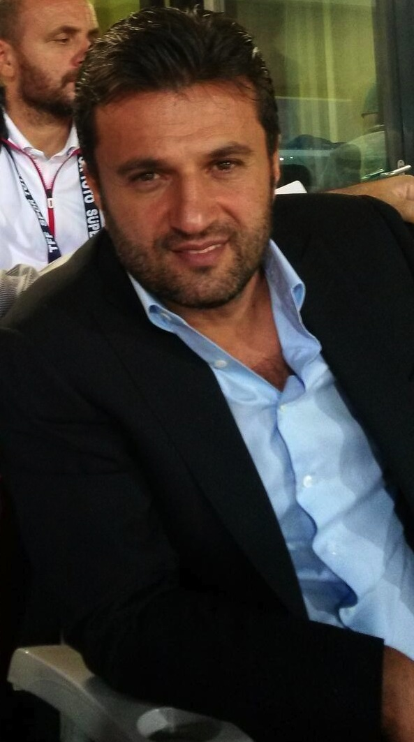 Bülent Uygun ¡ BJK - Antep match